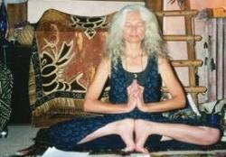 Ashtanga Yogini Jeannine Parvati, Photo Credit: Risa Klein, CNM